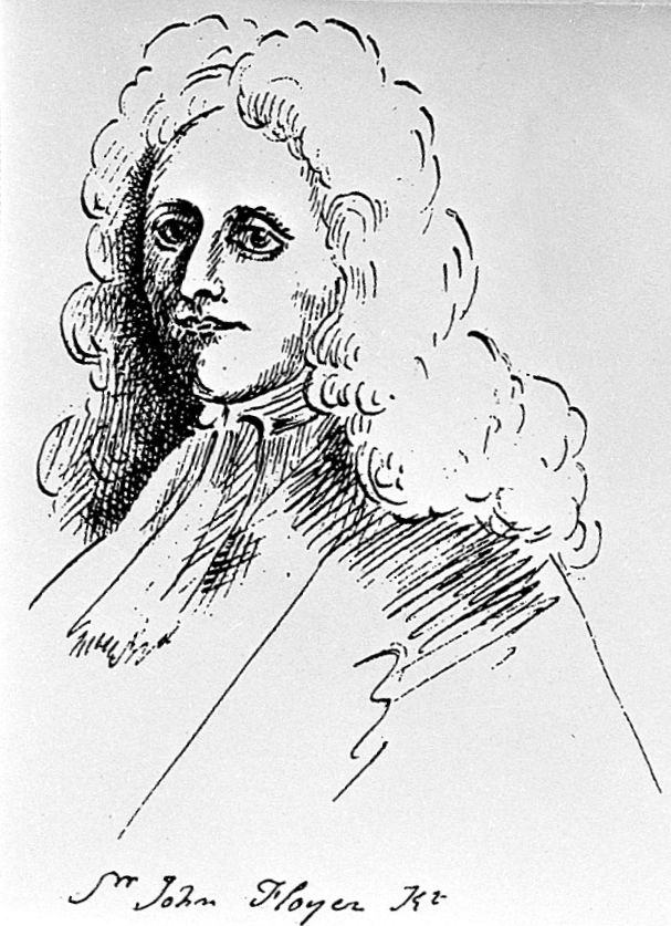 L0004264 "The physician's pulse watch", Floyer, 1707-1710 Credit: Wellcome Library, London. Wellcome Images Title page and portrait from Bodleian The physician's pulse-watch; or, an essay to explain the old art of feeling the pulse, and to improve it by the help of a pulse-watch ... To which is added, an extract out of Andrew Cleyer, concerning the Chinese art of feeling the pulse. (An appendic. I. An essay to make a new sphygmologia ... II. An inquiry into the nature ... of the respirations ... III. A letter concerning the rupture in the lungs), 3 volumes Floyer, Sir John Published: 1707-1710 Copyrighted work available under Creative Commons Attribution only licence CC BY 4.0